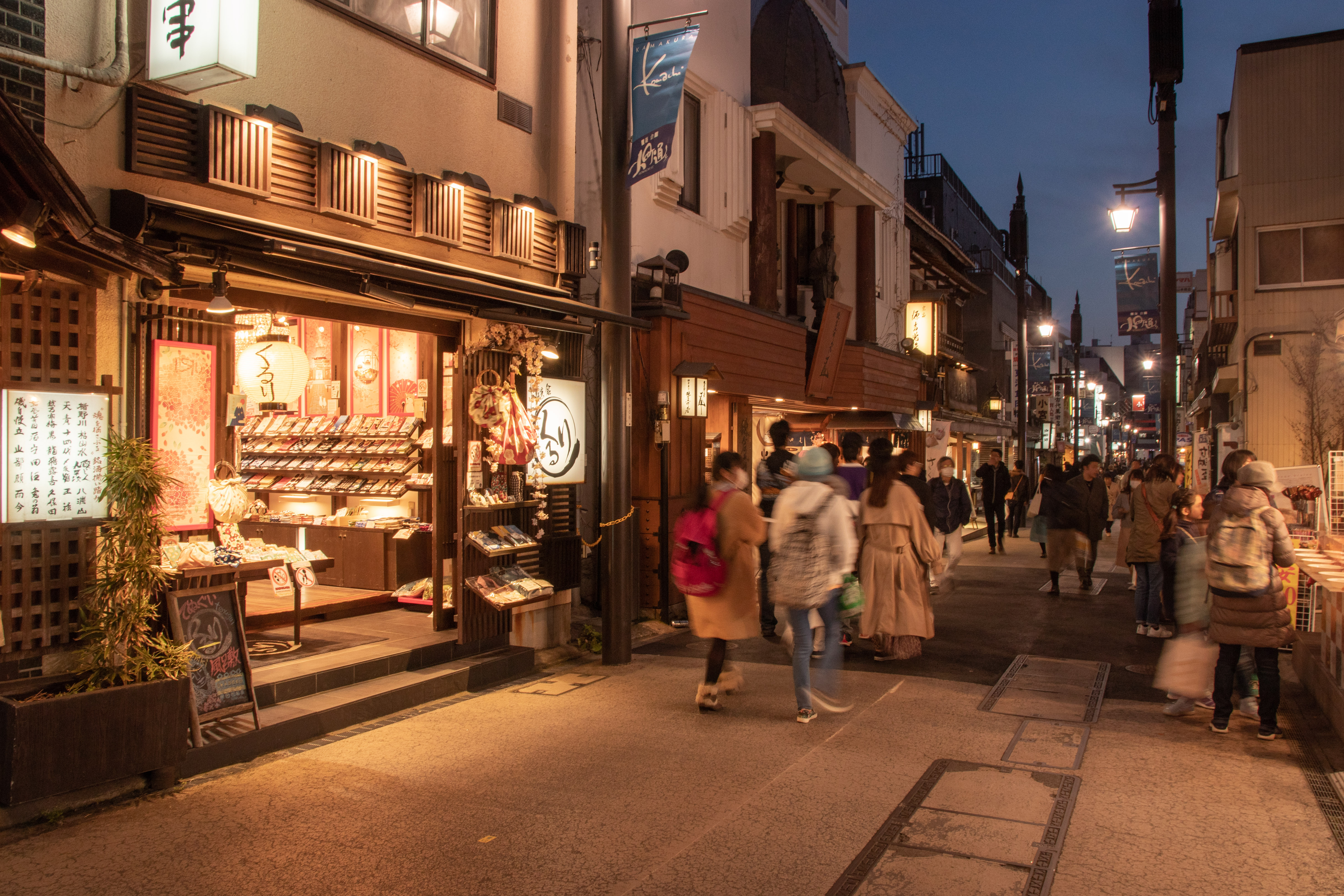 Komachi Street, Kamakura City, Kanagawa Pref., Japan